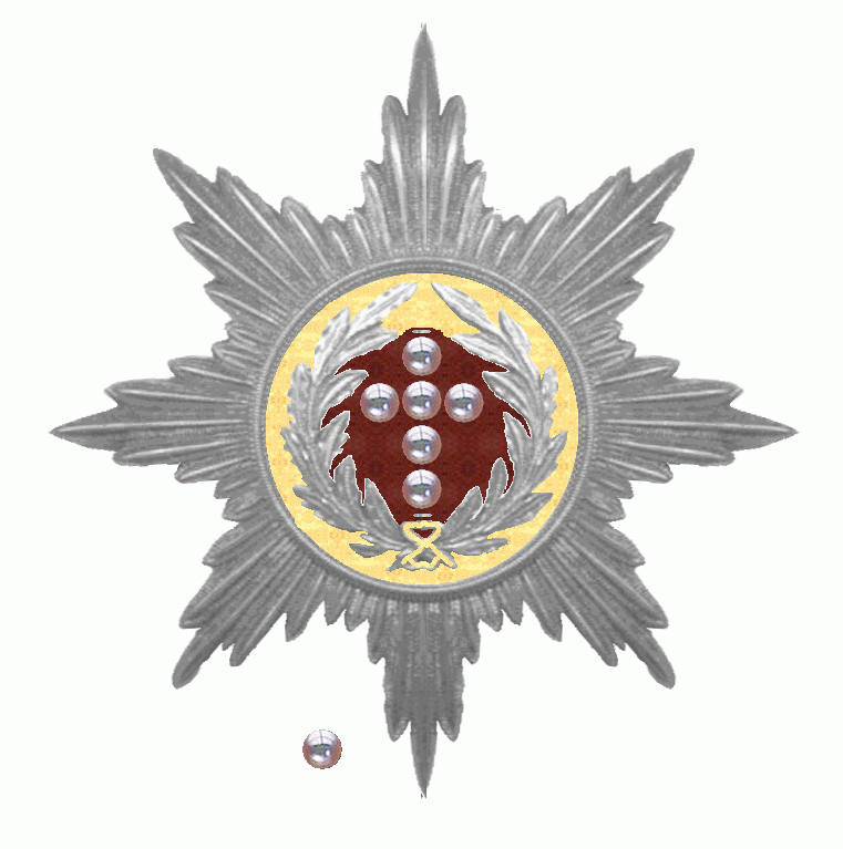 Order of the Elephant, silver star with pearls